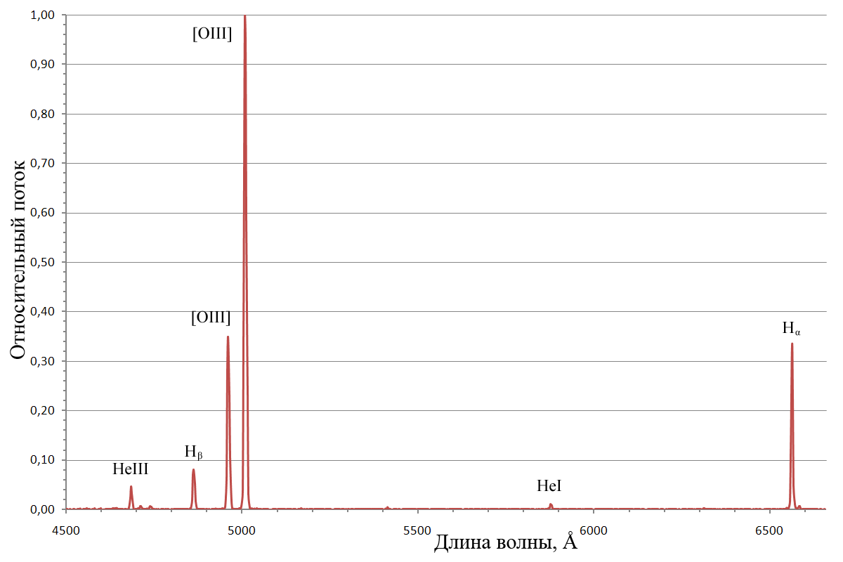 The spectrum of the Blue Snowball Nebula (NGC 7662) in range 4500 — 6660 Å. Left part — helium line (HeIII, 4686 Å), hydrogen line (Hβ, 4861 Å) and two forbidden lines of oxygen ([OIII], 4959 Å and [OIII], 5007 Å), right — helium line (HeI, 5876 Å) and hydrogen line (Hα, 6563 Å).